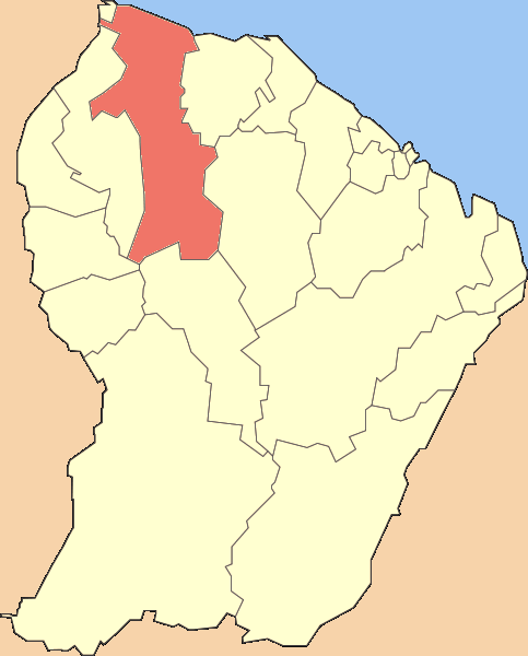 Made map myself.